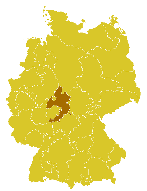 catholic dioecese Fulda